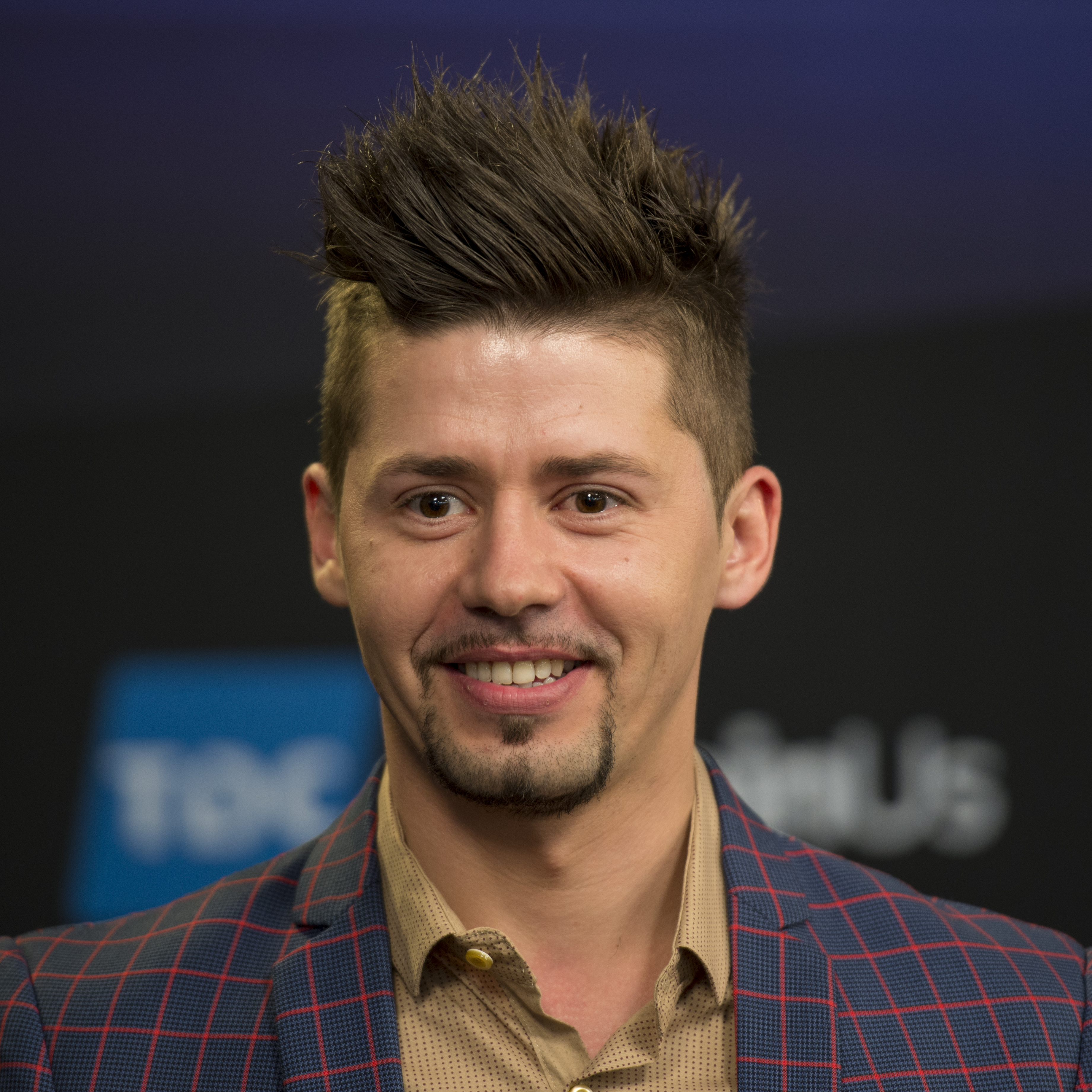 Teo at a Meet & Greet during the Eurovision Song Contest 2014 Copenhagen. (Help translate this text)